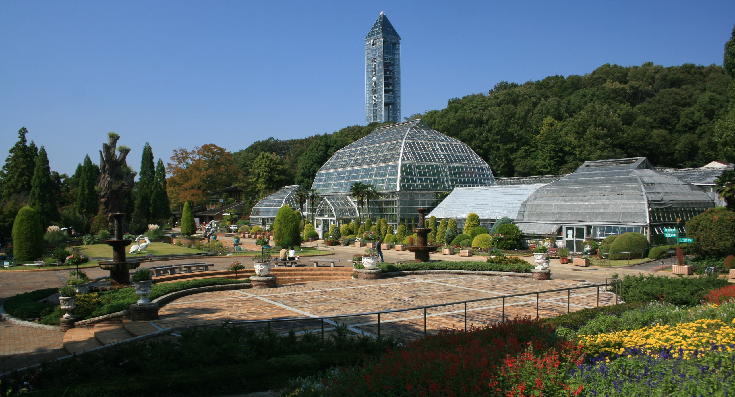 Botanical Garden of Higashiyama Zoo and Botanical Gardens